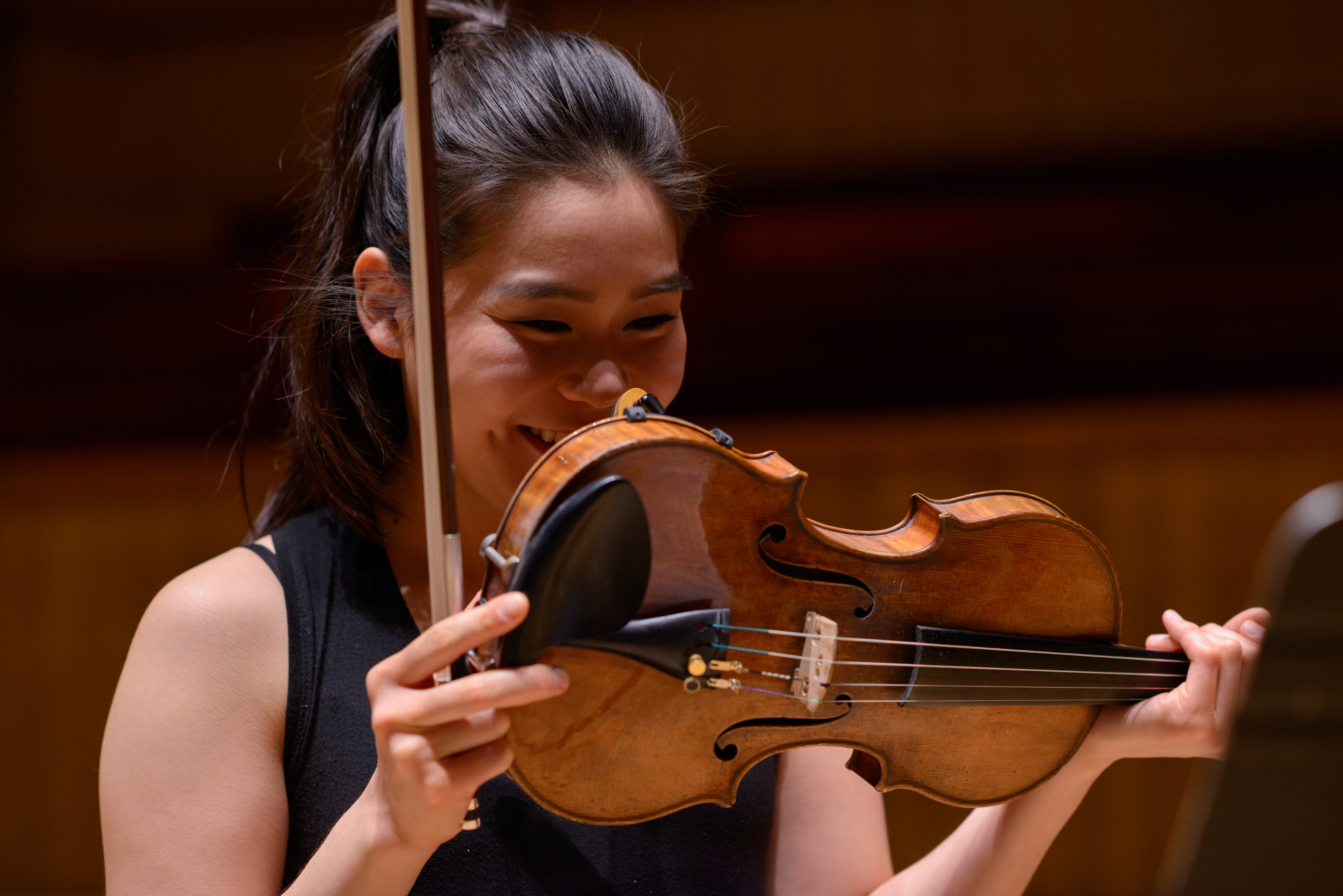 Esther Yoo back of violin